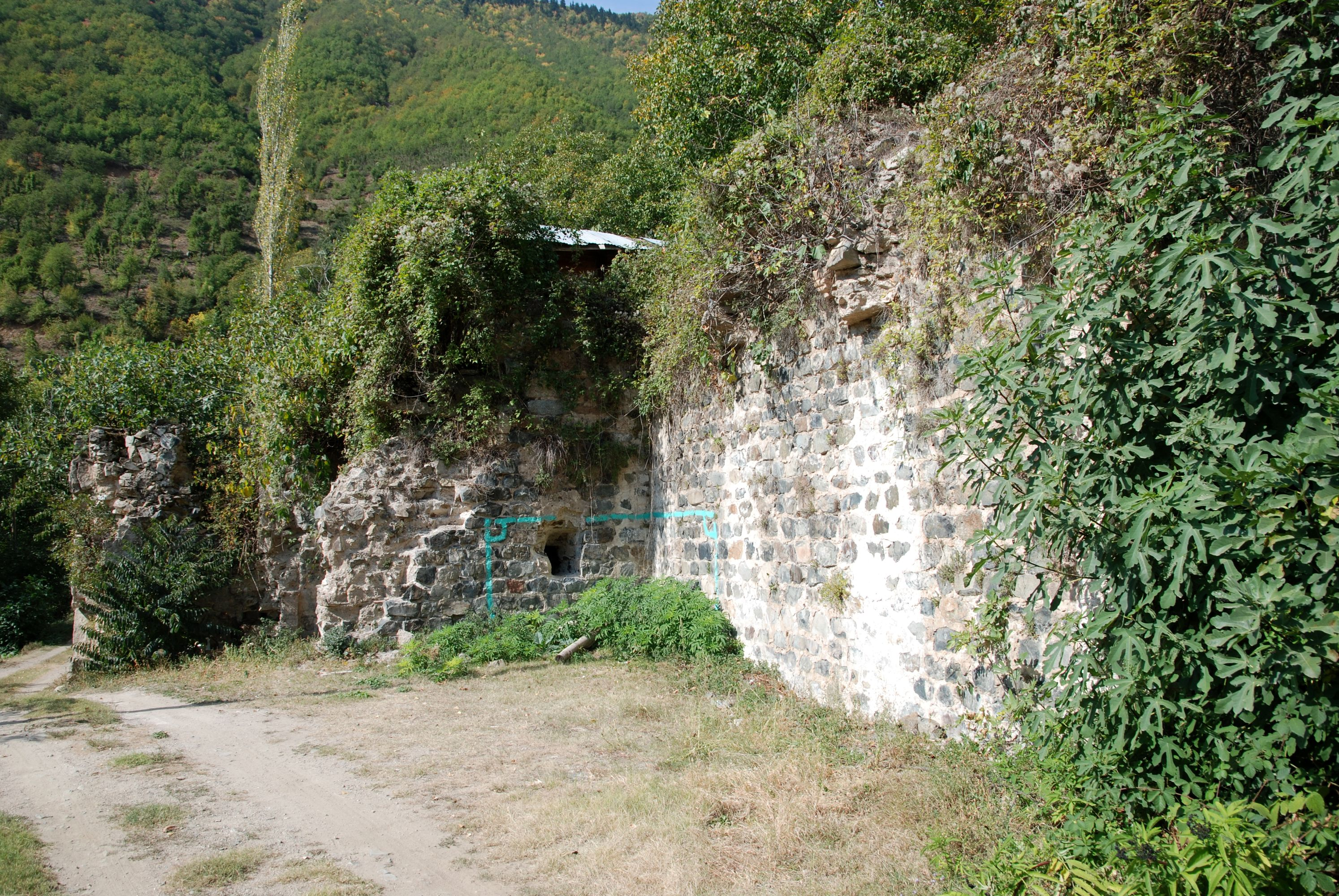 Opiza, Georgian monastery